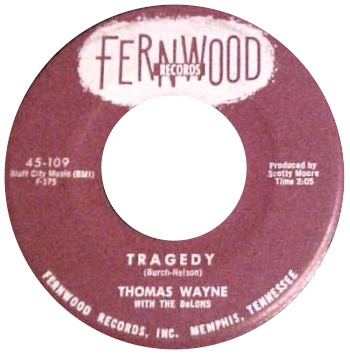 Tragedy by Thomas Wayne, Fernwood Records 1958.